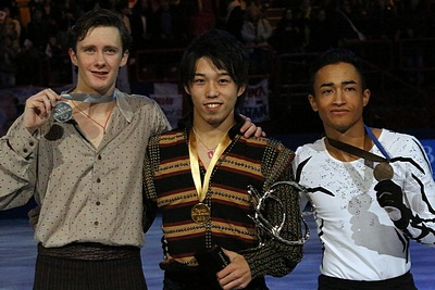 The men's podium at the Trophée Eric Bompard 2012. From left: Jeremy Abbott (2nd), Takahito Mura (1st), Florent Amodio (3rd).